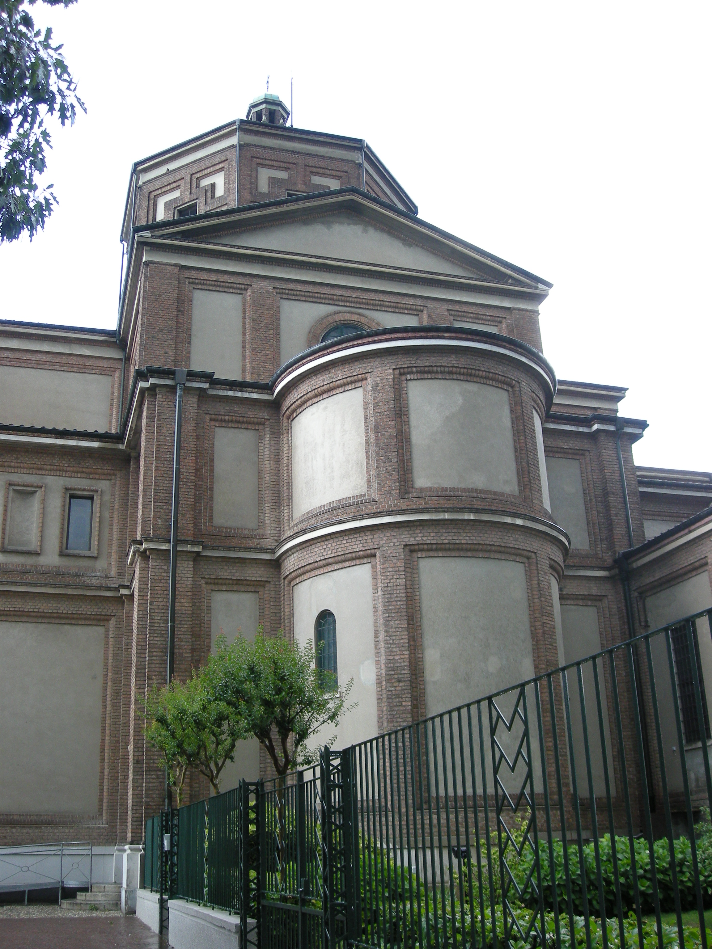 Cernusco sul Naviglio (Italy) - Santa Maria Assunta Church